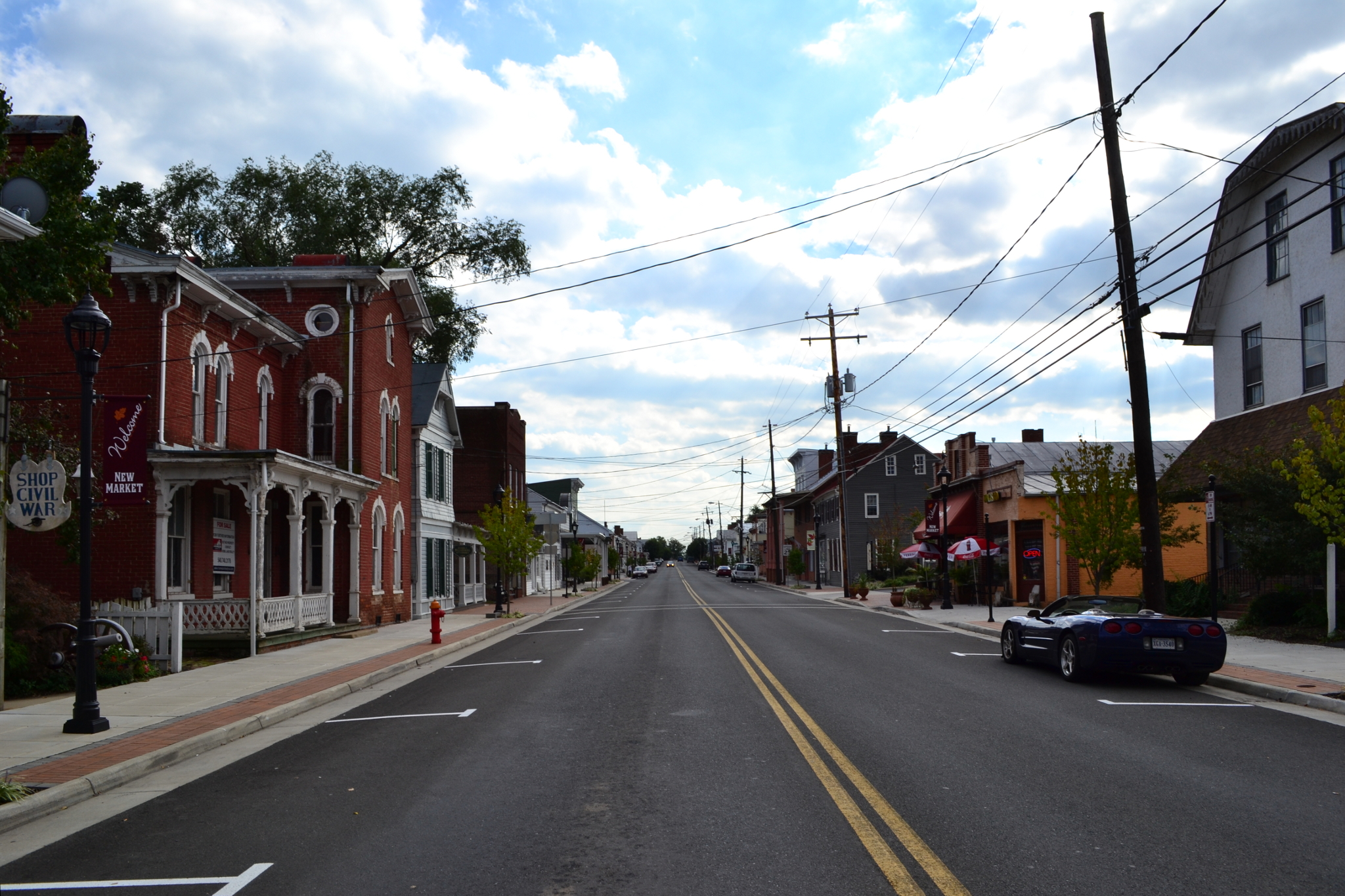 New Market Historic District, Junction of US 11 and US 211 New Market